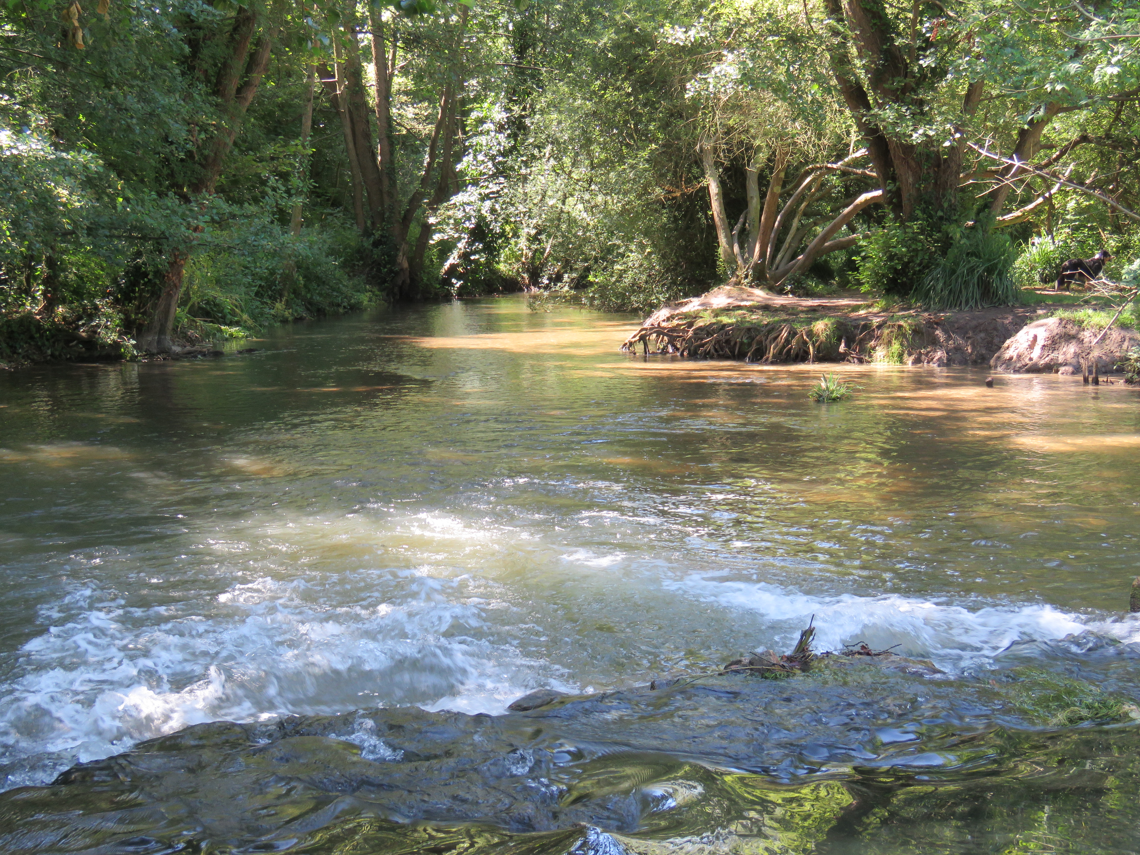 River Meon, Hampshire, near Wickham